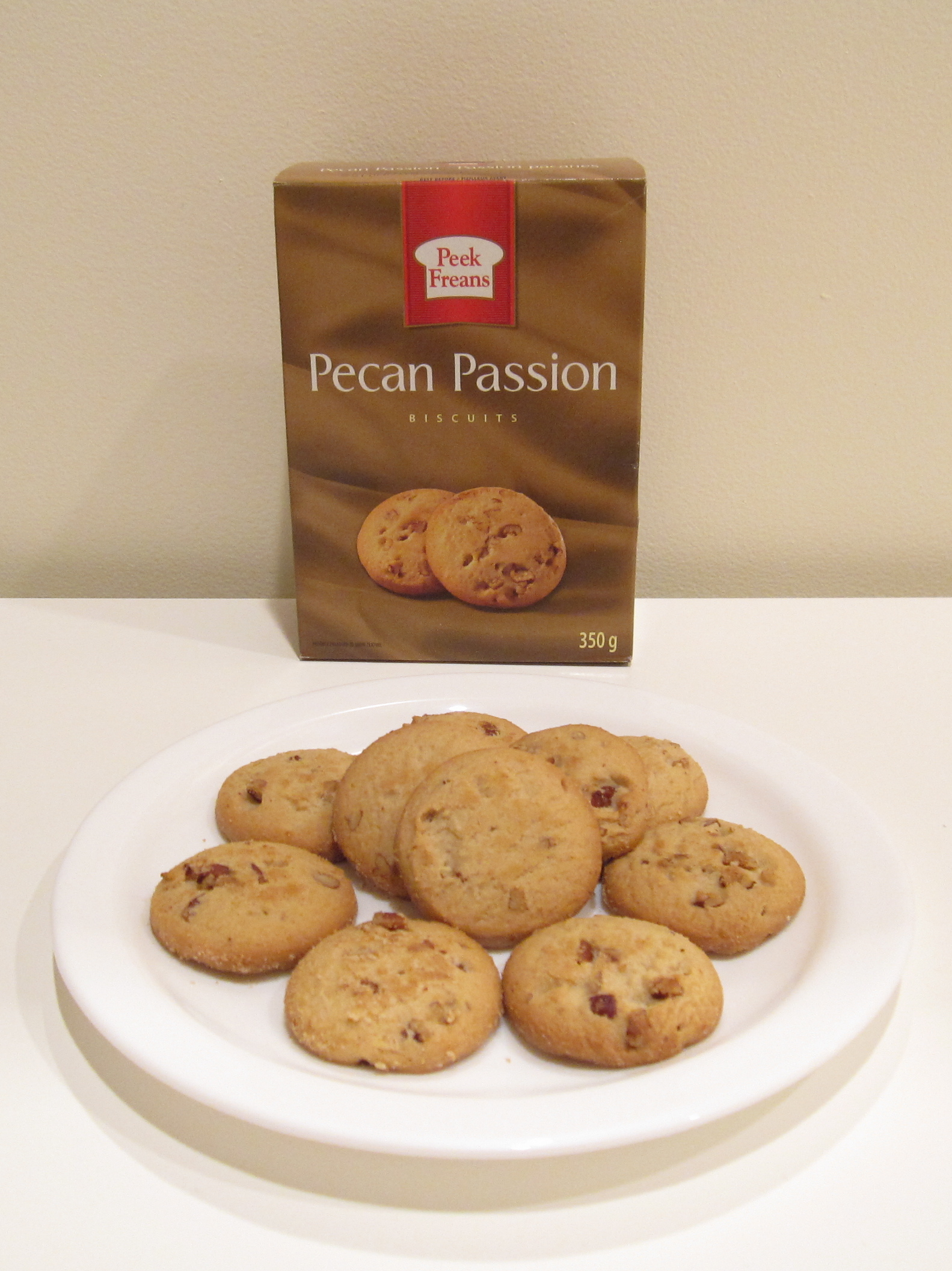 Peek Freans products.